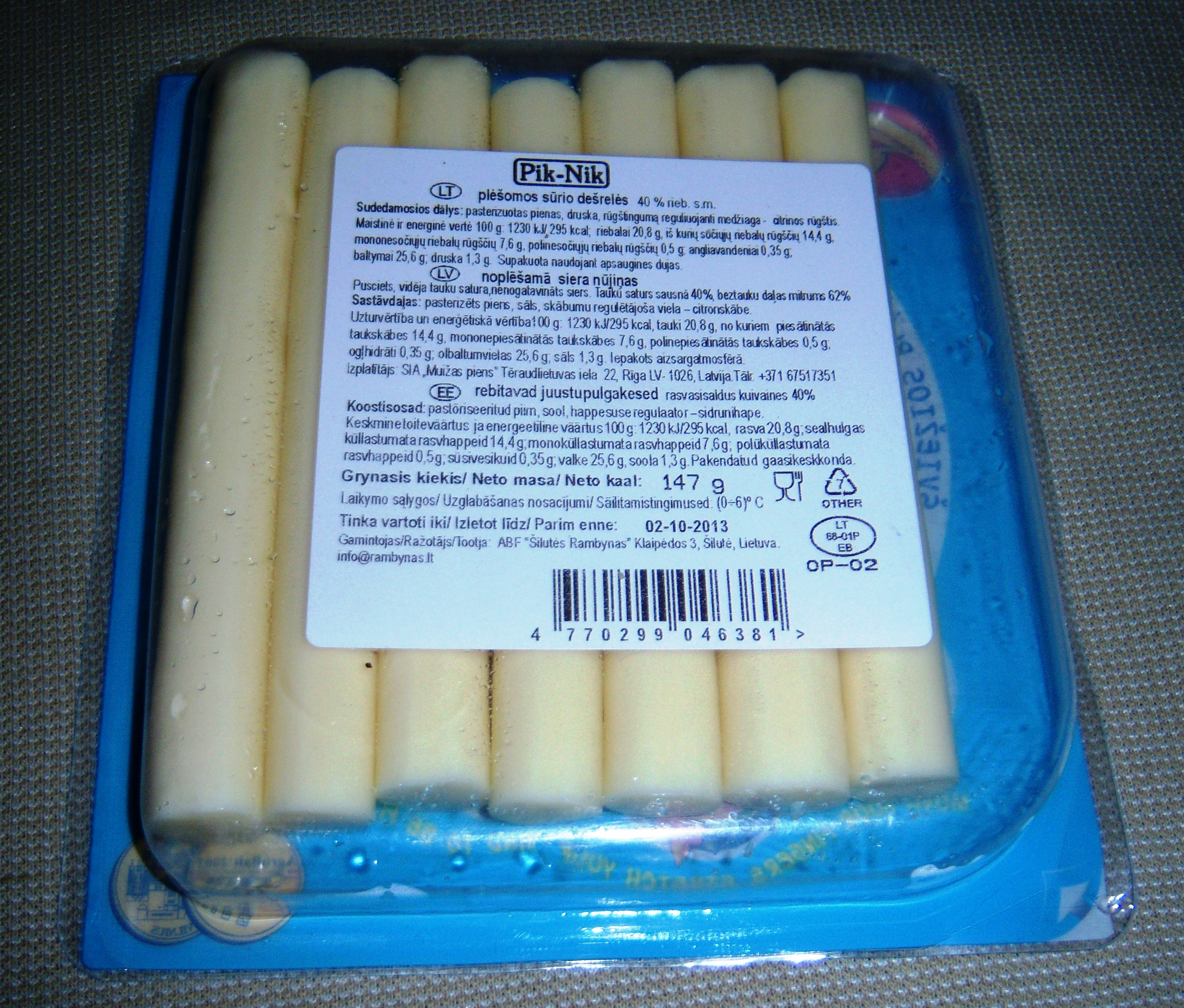 Pack of peelable cheese sticks, in packaging gas, Lithuania